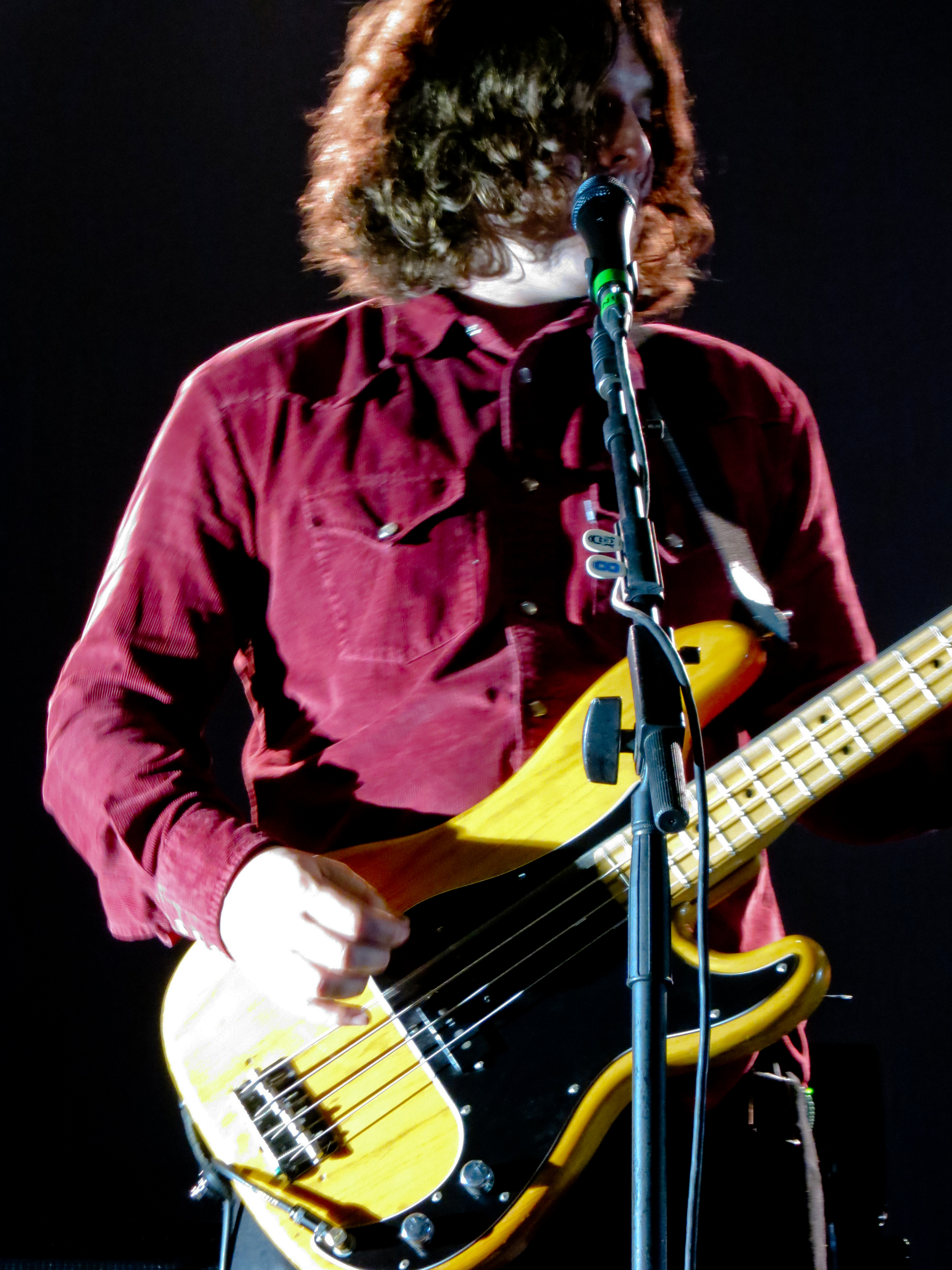 Nick O'Malley playing with Arctic Monkeys at Madison Square Garden on March 22nd, 2012